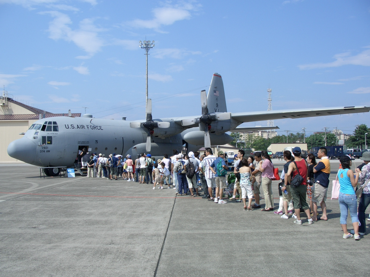 Members of the Japanese community wait to enter this C-130 in Yokota Air Base Friendship Festival 2005